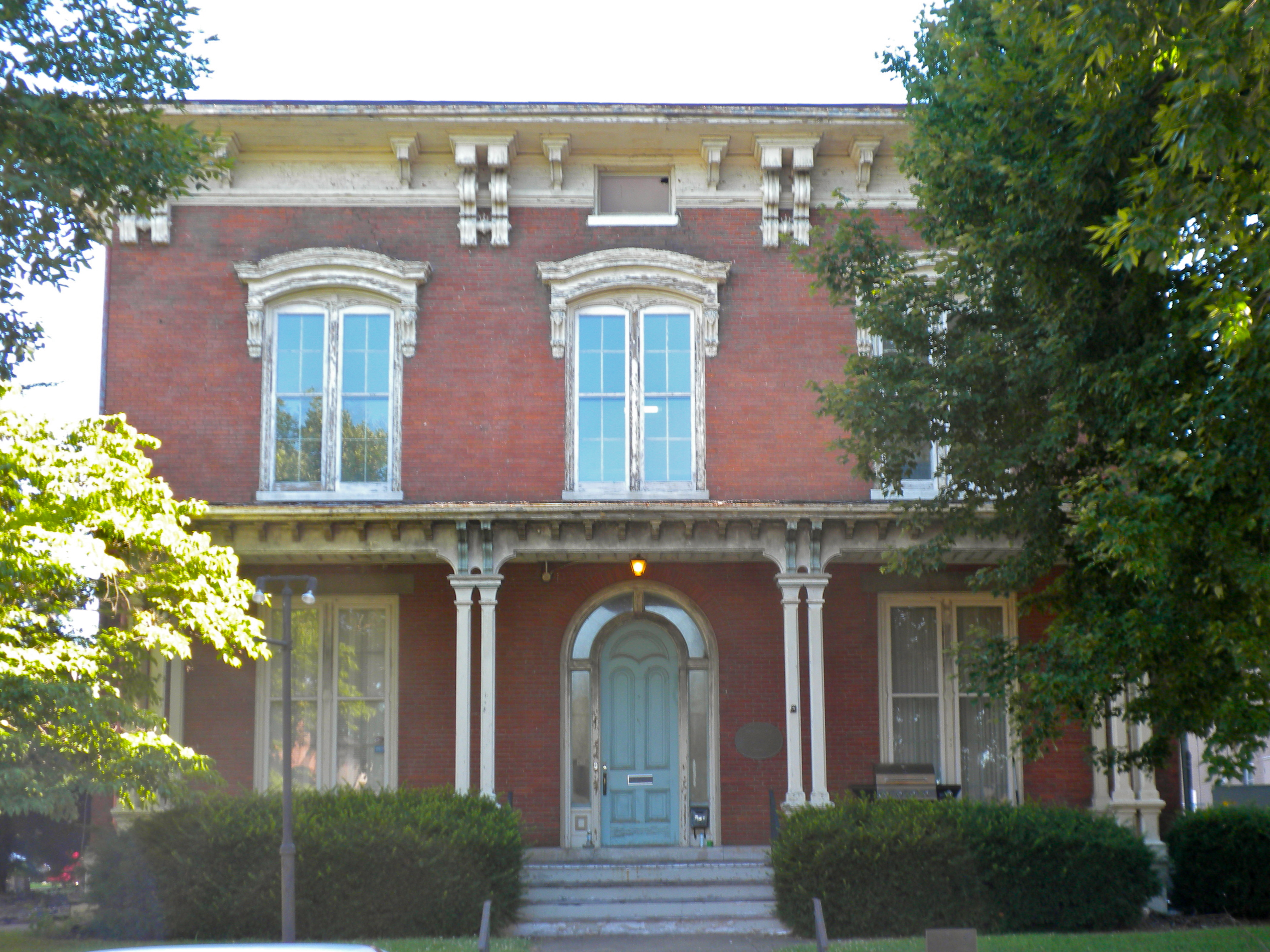 Morgan-Wells House on the NRHP since November 16, 1977. At 421 Jersey St., Quincy, Illinois